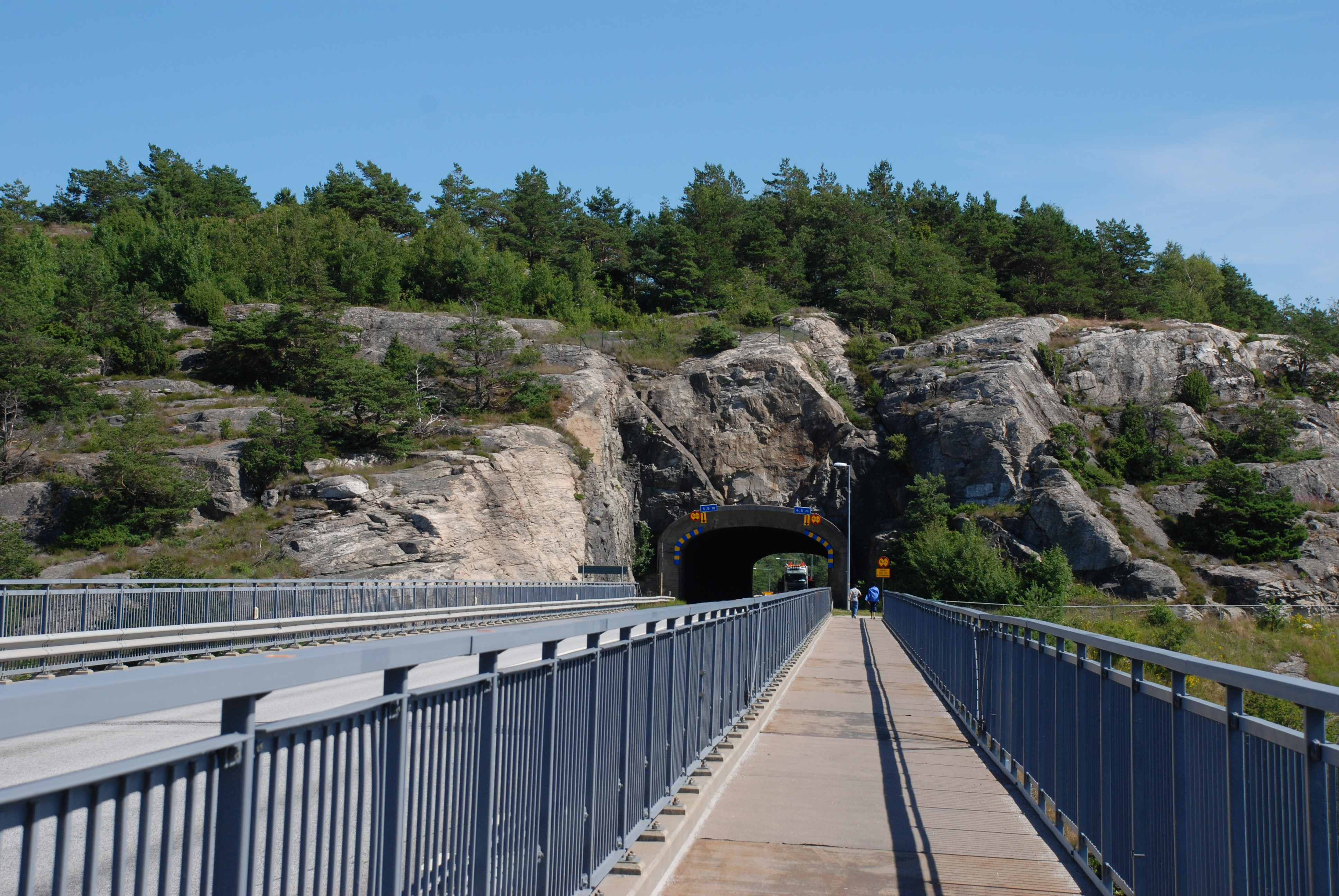 The bridge Källösundsbron between the islands Stenungsön and Källön, one of the bridges connecting the island Tjörn with the mainland at Stenungsund in Bohuslän, western coast of Sweden.